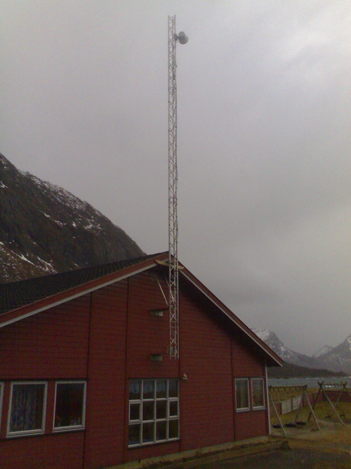 Gildeskål Bredbånd relay antenna at Storvik Oppvekstsenter, Norway.